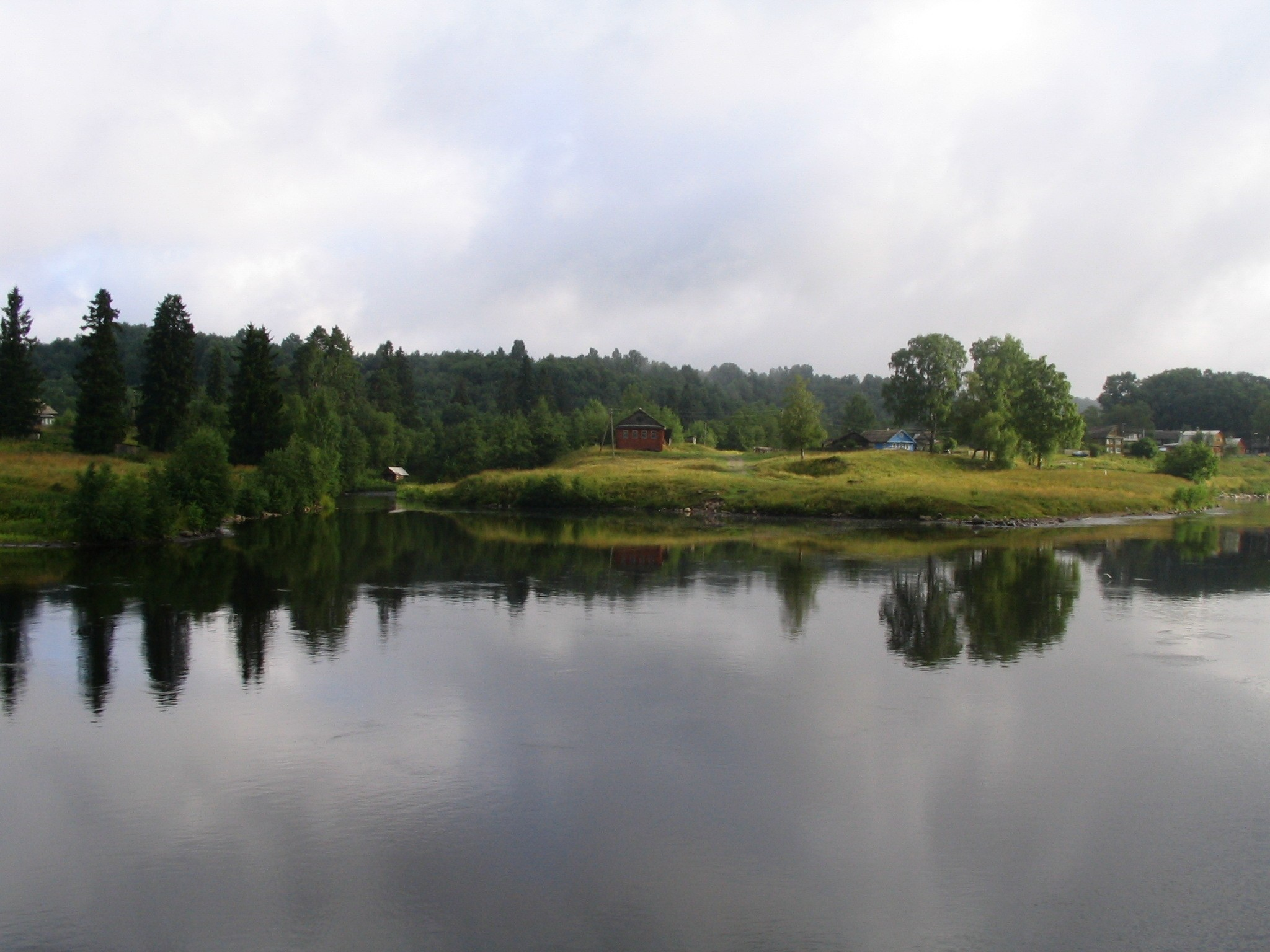 This is the Svir River in July 2005.